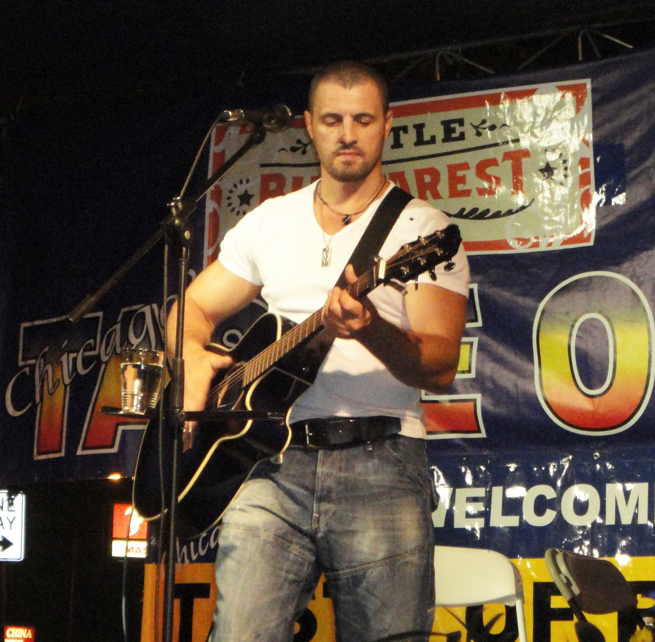 Moldovan singer Pavel Stratan performing on 25 August 2013 at Taste of Romania in Chicago, Illinois.